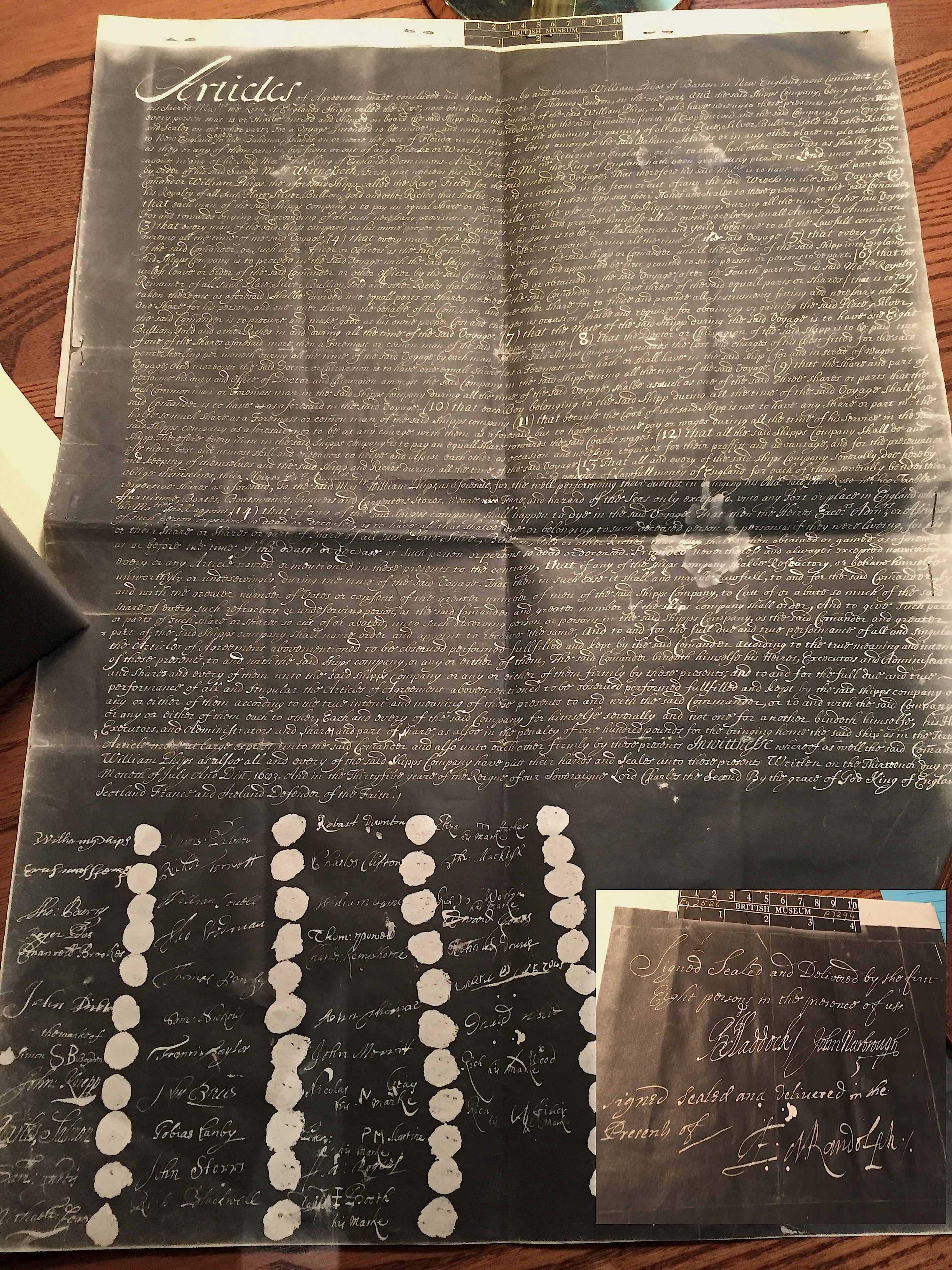 Articles of Agreement between Phips and his crew